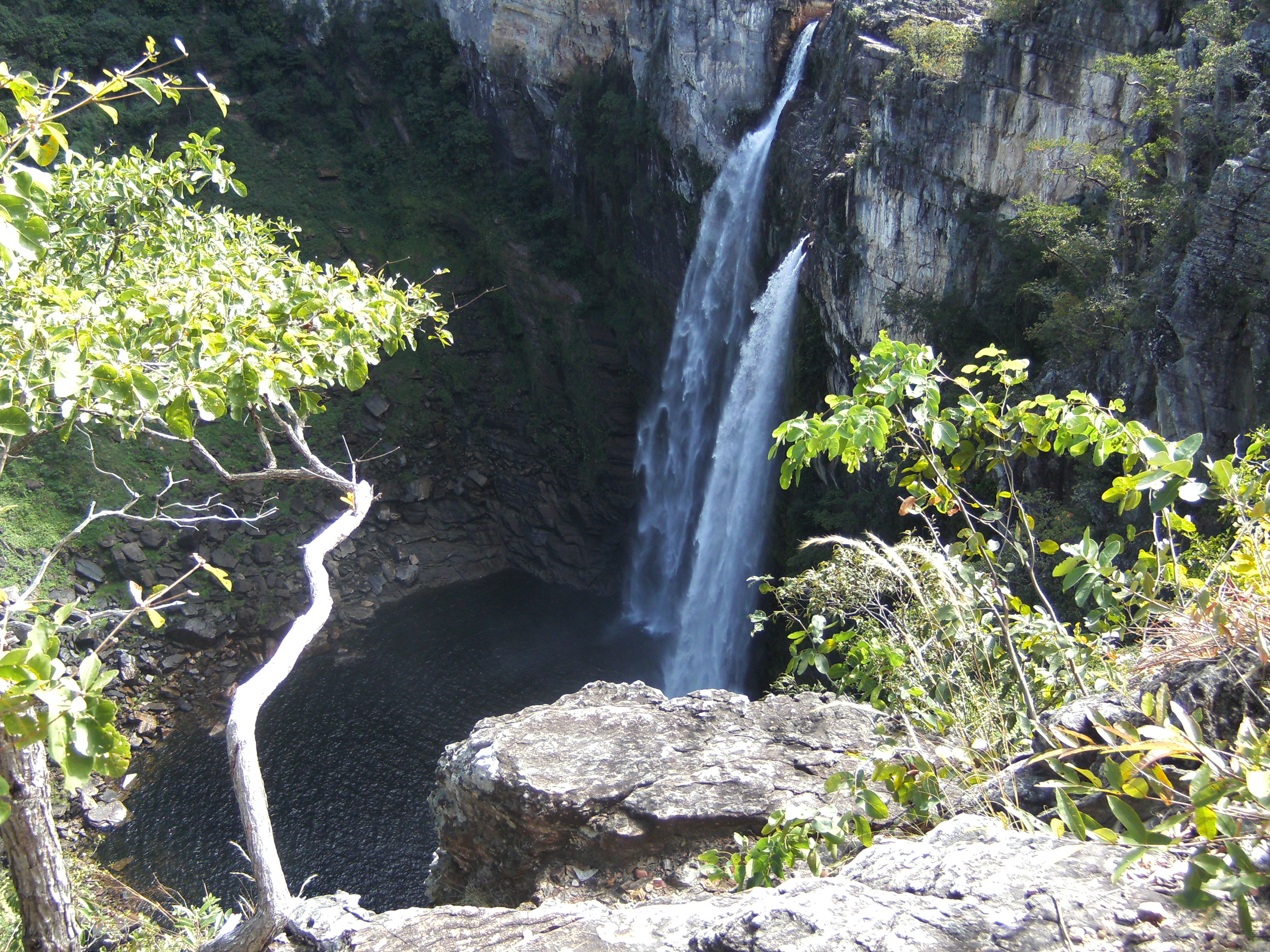 Waterfall 120 m, Chapada dos Veadeiros. Entry: Vila São Jorge